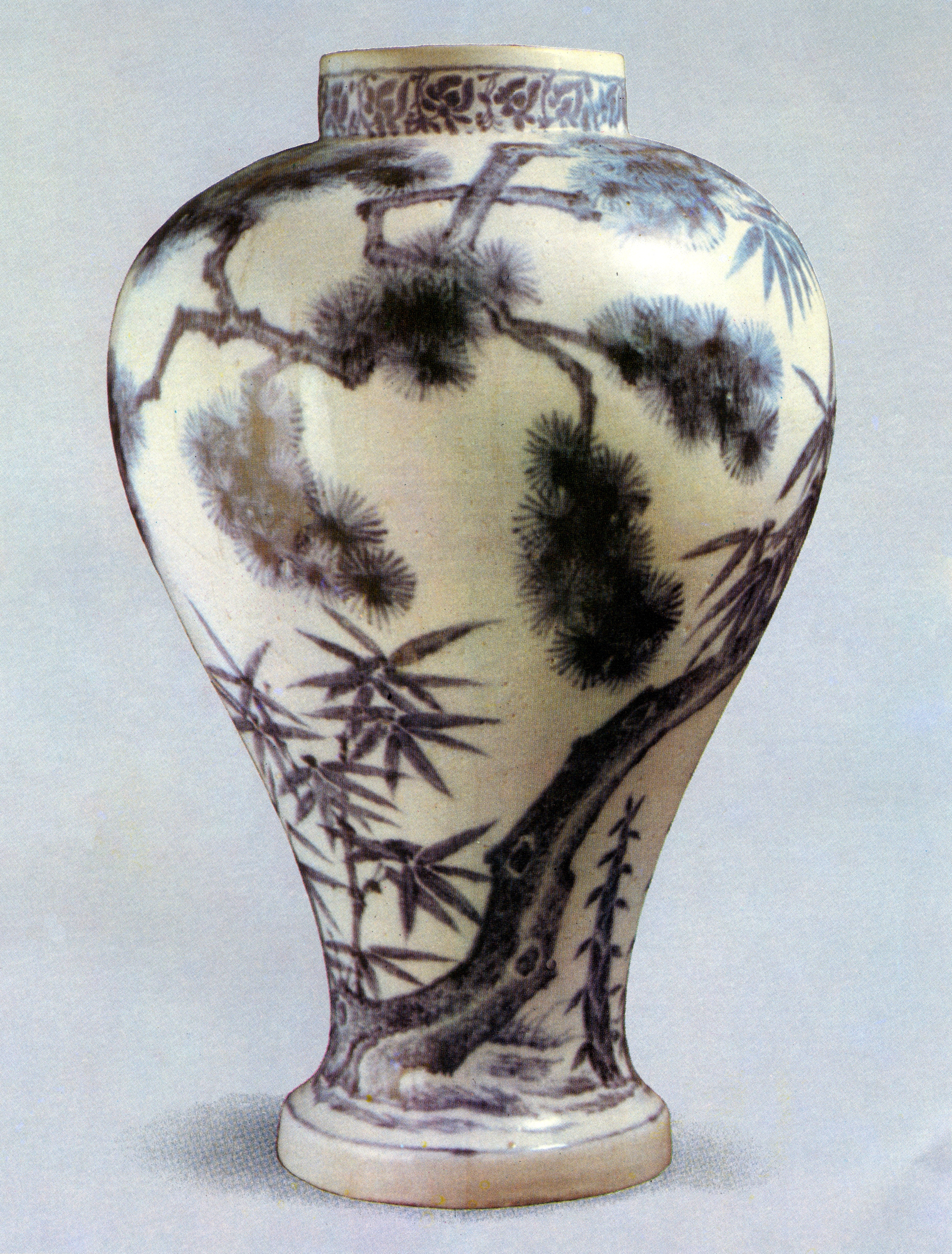 Blue-and-White Jar with Inscription of Hongchi Year 2, with Pine and Bamboo Design. 5th century, Joseon dynasty Korea. Blue and white porcelain jar with pine and bamboo designs was made in 1489. Dongguk University Museum, Seoul.